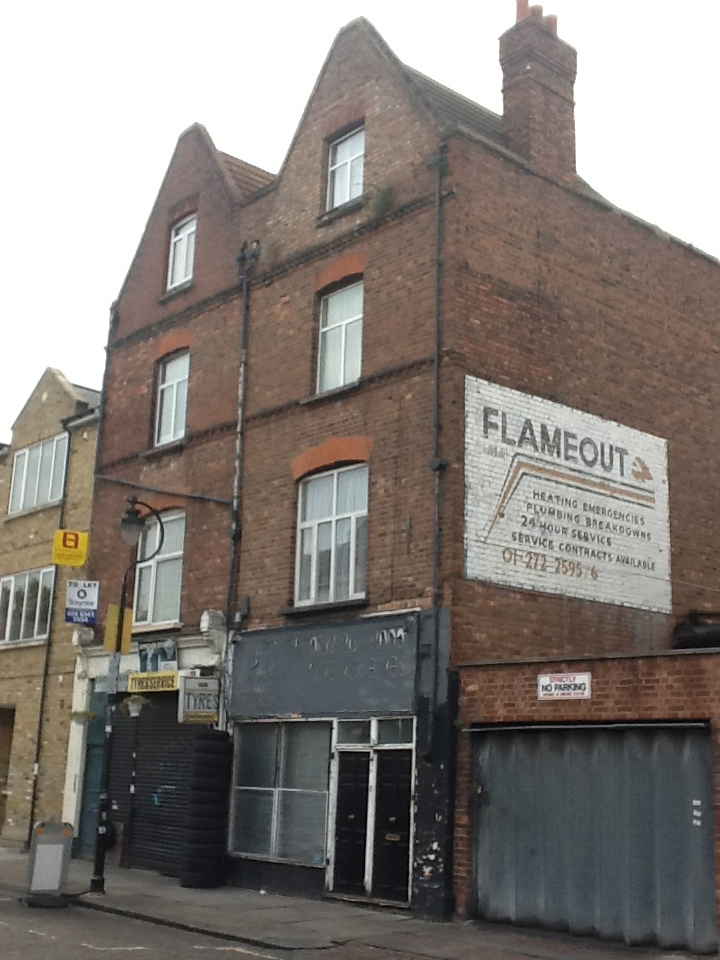 The (unfinished) Stroud Green Assembly Rooms (c.1895) seen 5 June 2012 from Mount Pleasant Crescent: History of Stroud Green